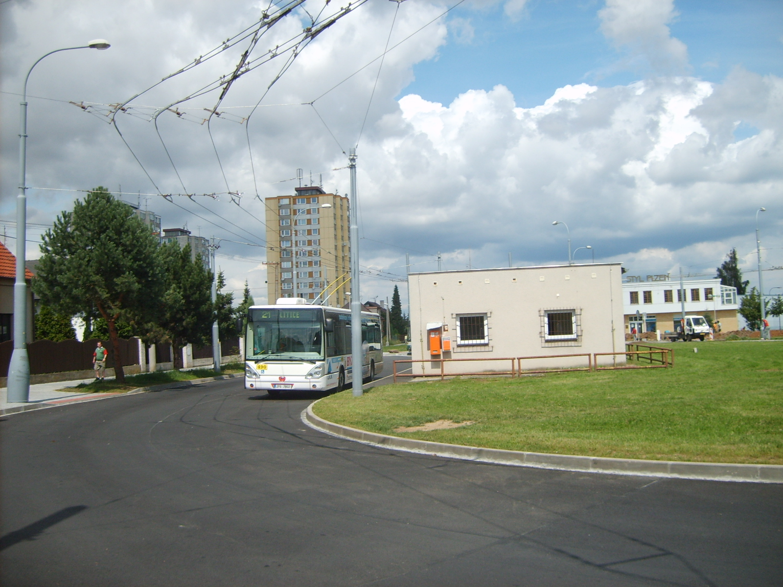 Terminus of trolleybuses and buses on Nová Hospoda suburb in Pilsen, CZ.